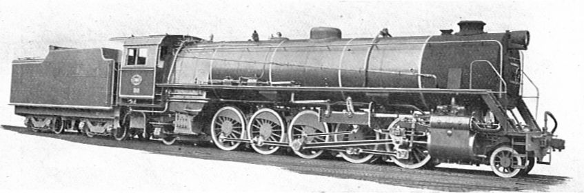 The Heaviest 3-ft 6-in Gauge Locomotive in the World 190-ton 2-10-2 Freight Engine, South African Rlys Photo: South African Rys